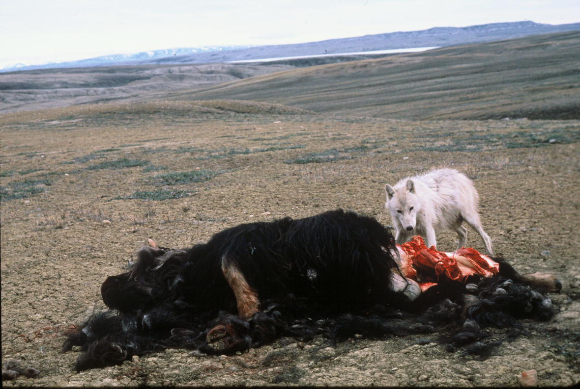 Muskoxen are the main prey of wolves on Ellesmere Island.